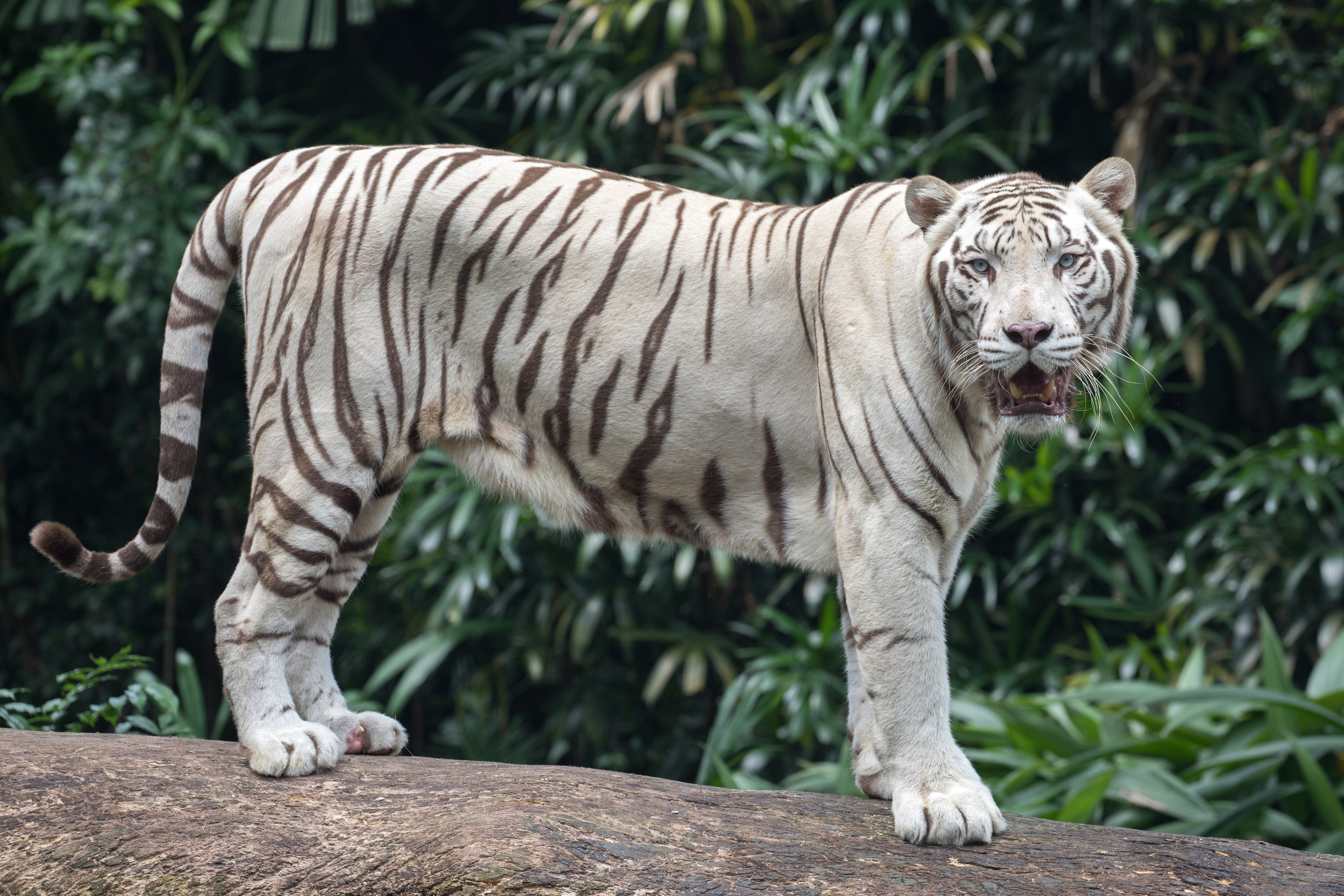 Standing white tiger (Bengal tiger species 😺) with open mouth, at Singapore Zoo.